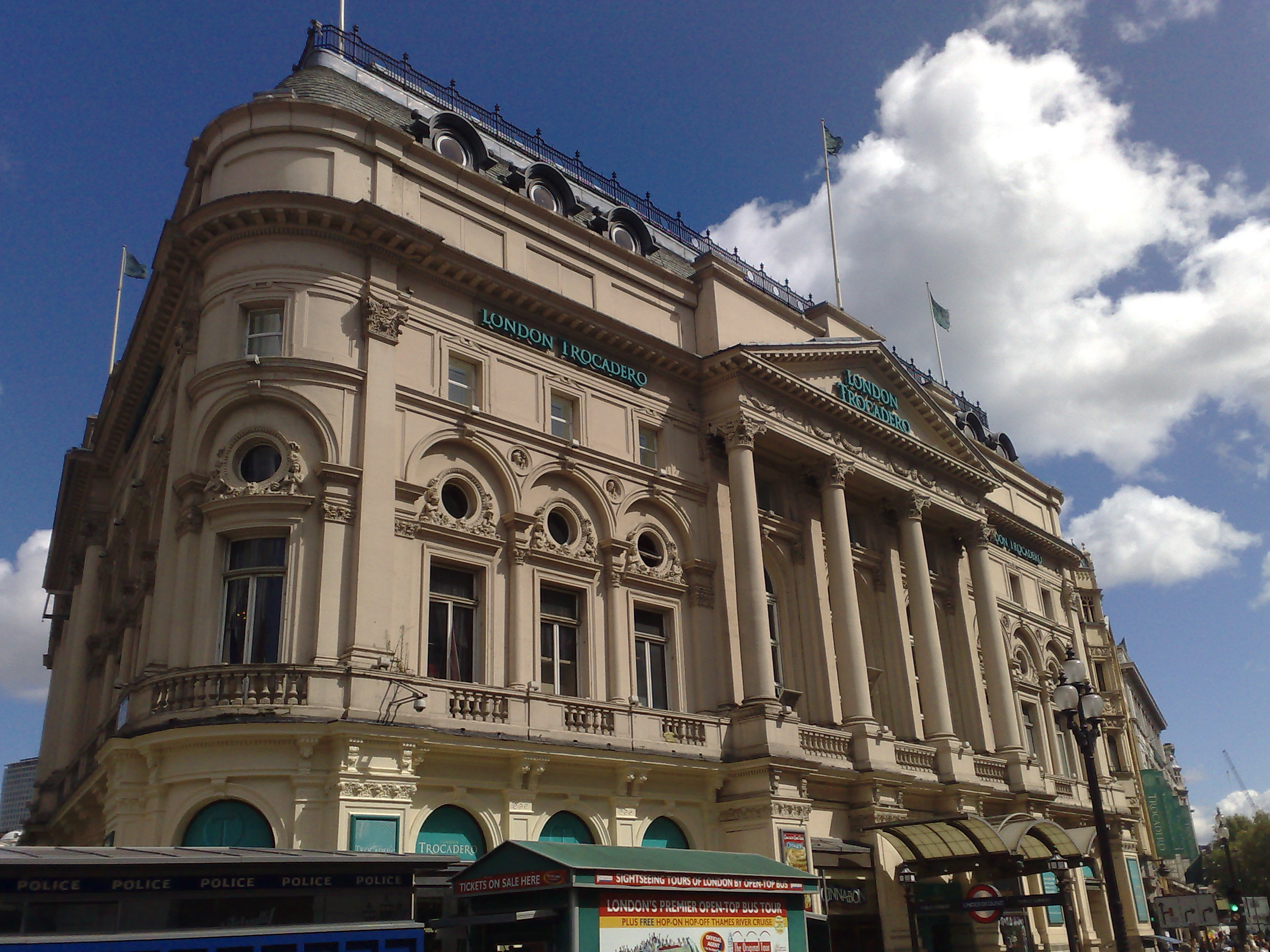 Home of lots of games in Piccadilly London